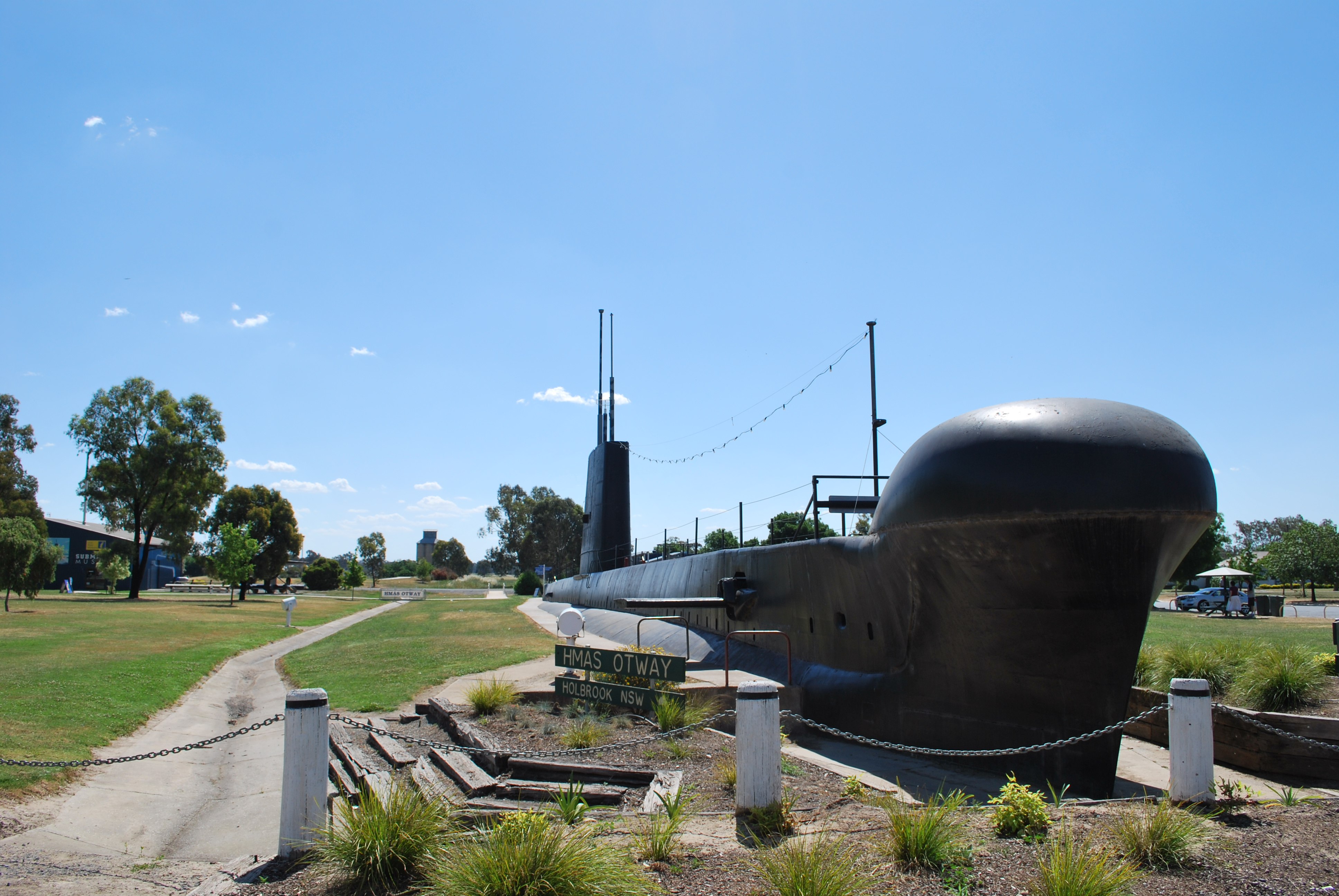 HMAS Otway, a submarine at Holbrook, New South Wales